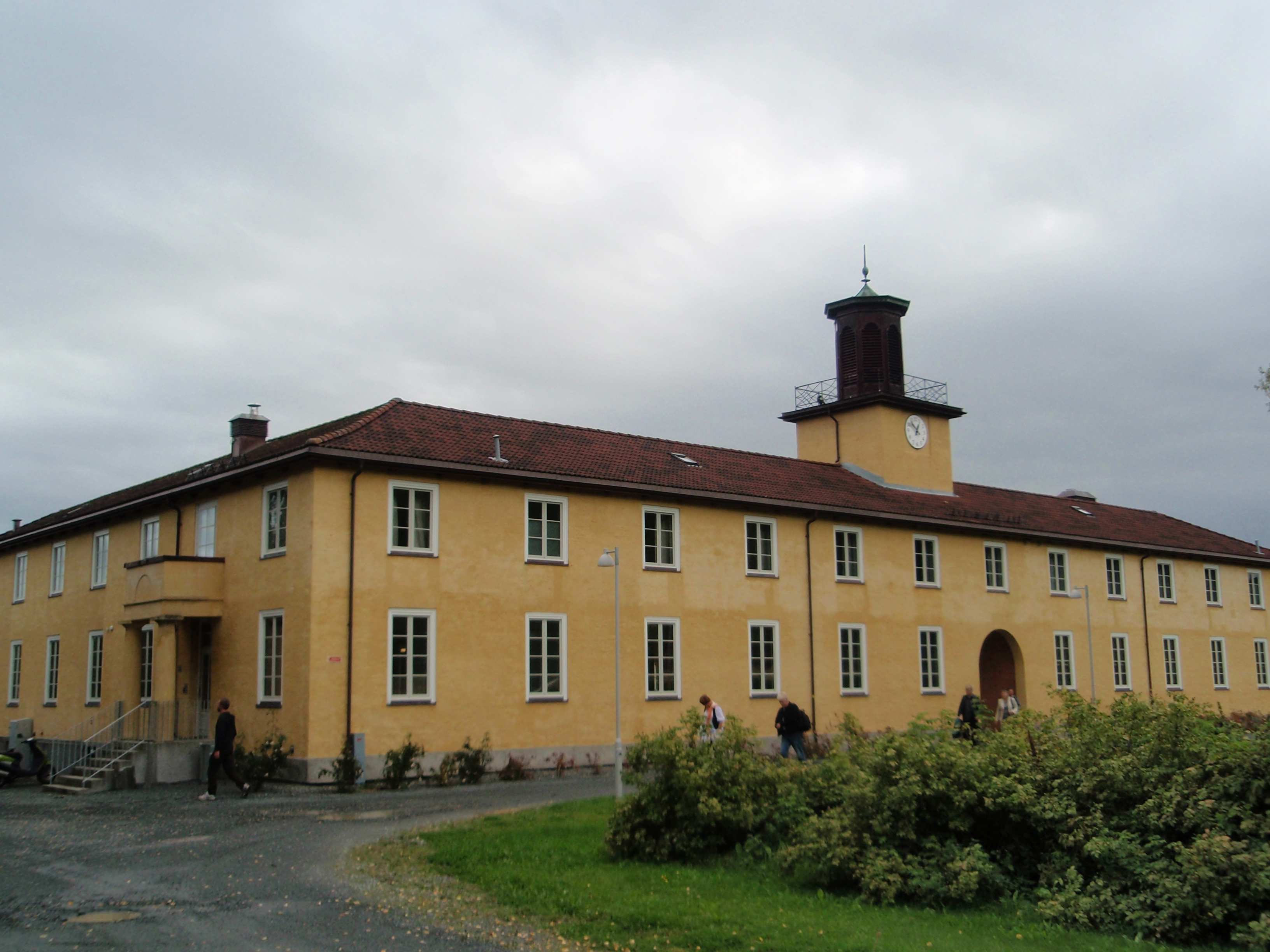 The main building of the Falstad complex in Nord-Trøndelag, Norway. Built as part of a boarding school for boys in the 1920s, the building was part of Falstad concentration camp during the Second World War. Since the 1990s the building has been a museum.